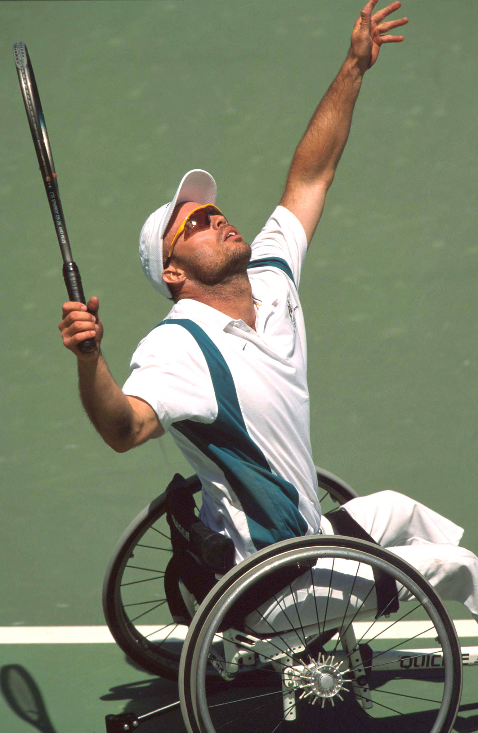 Australian wheelchair tennis player David Hall serves the ball during 2000 Sydney Paralympic Games match